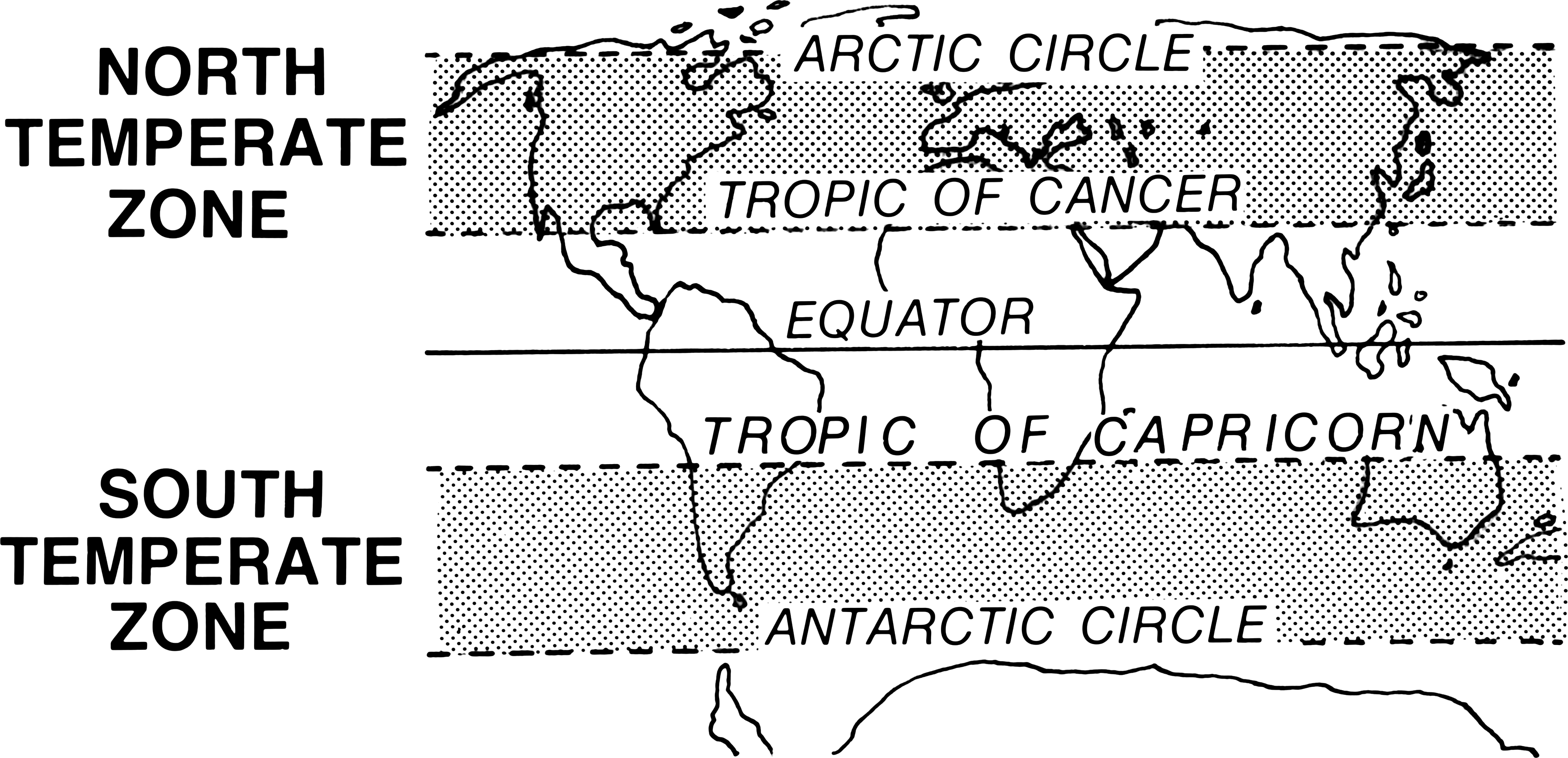 Line art representation of the Temperate zone